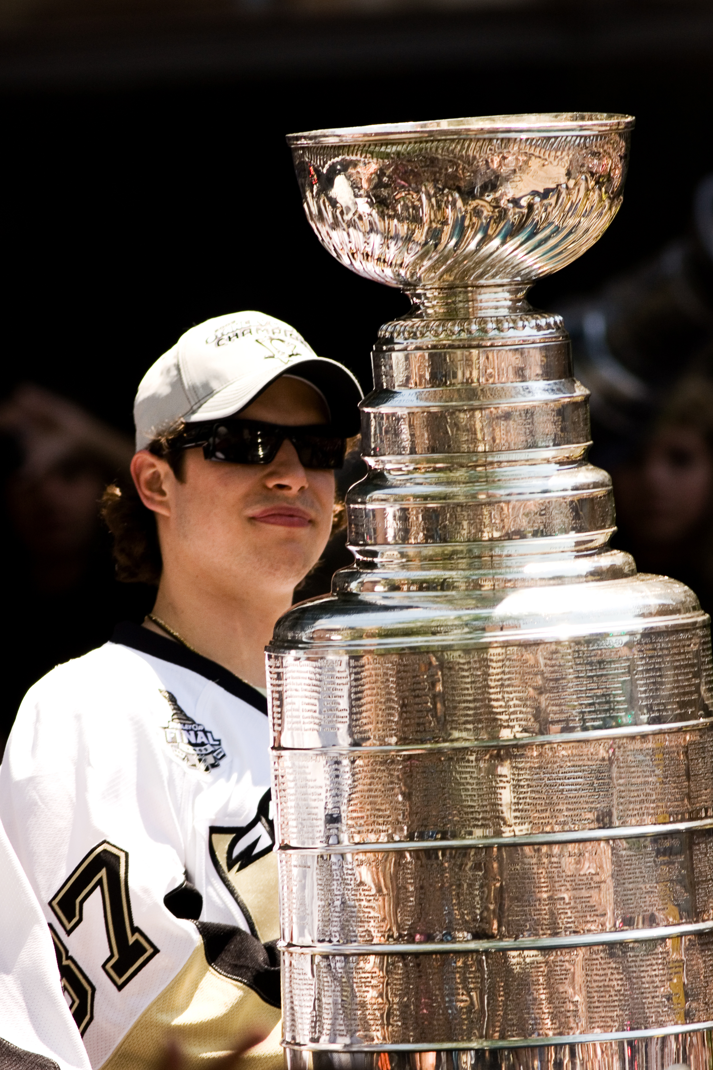 Sidney Crosby with the Stanley Cup during the Pittsburgh Penguins 2009 championship parade.